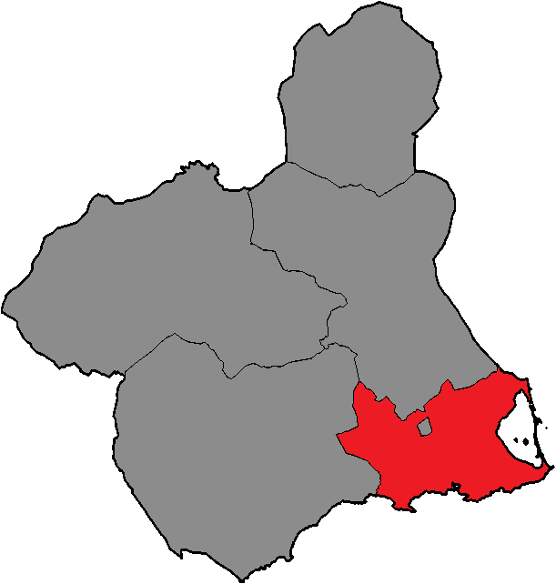 Murcian Regional Assembly District Two.